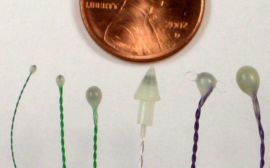 Photograph of an assortment of sonomicrometer crystals